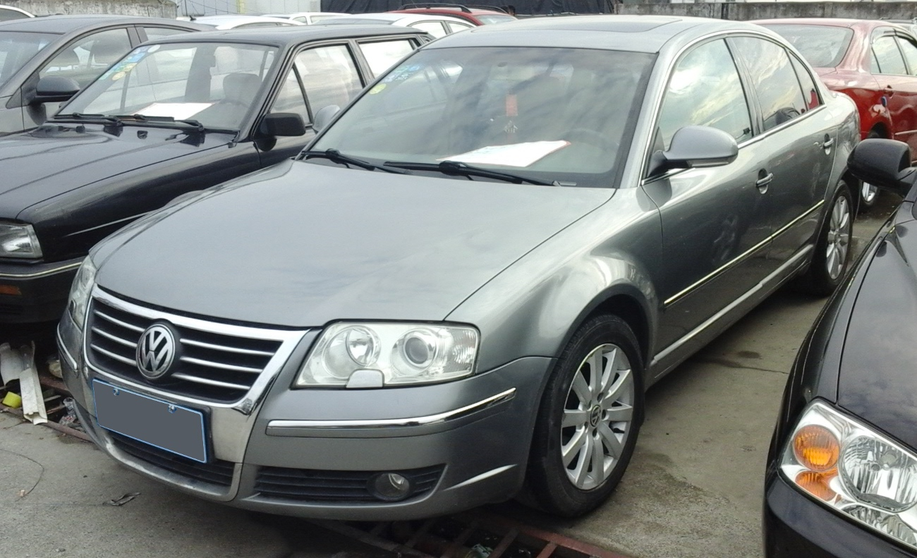 Volkswagen Passat Lingyu photographed in Shanghai, China.